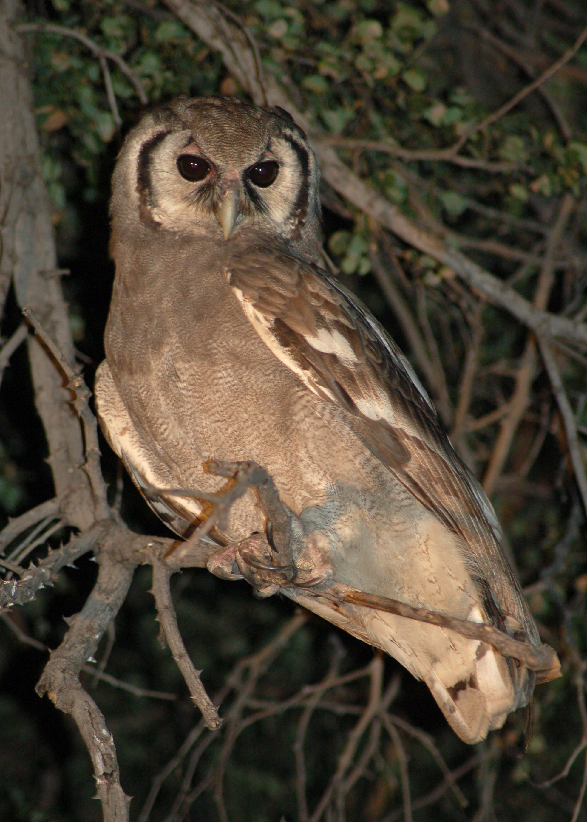 Giant eagle owl (Bubo lacteus) in the Okavango Delta, Botswana